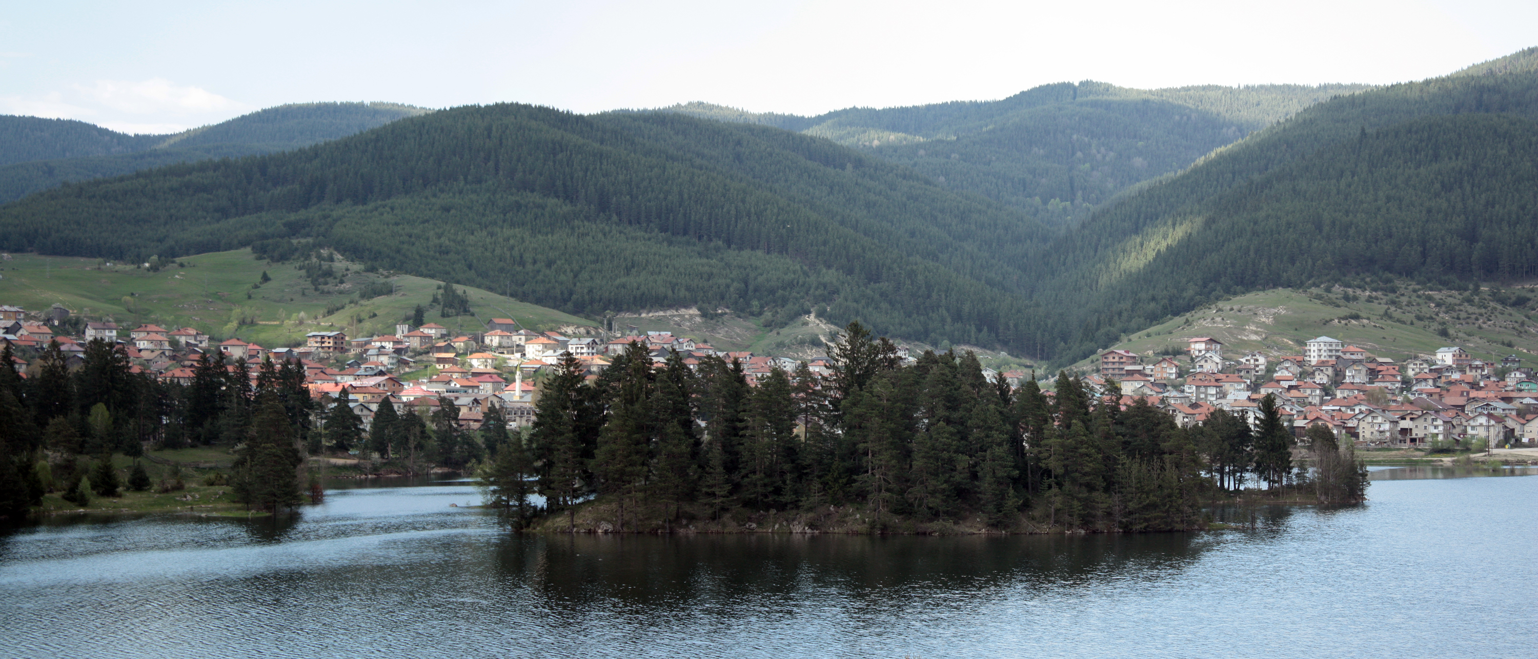 Panorama of Sarnitsa, Bulgaria